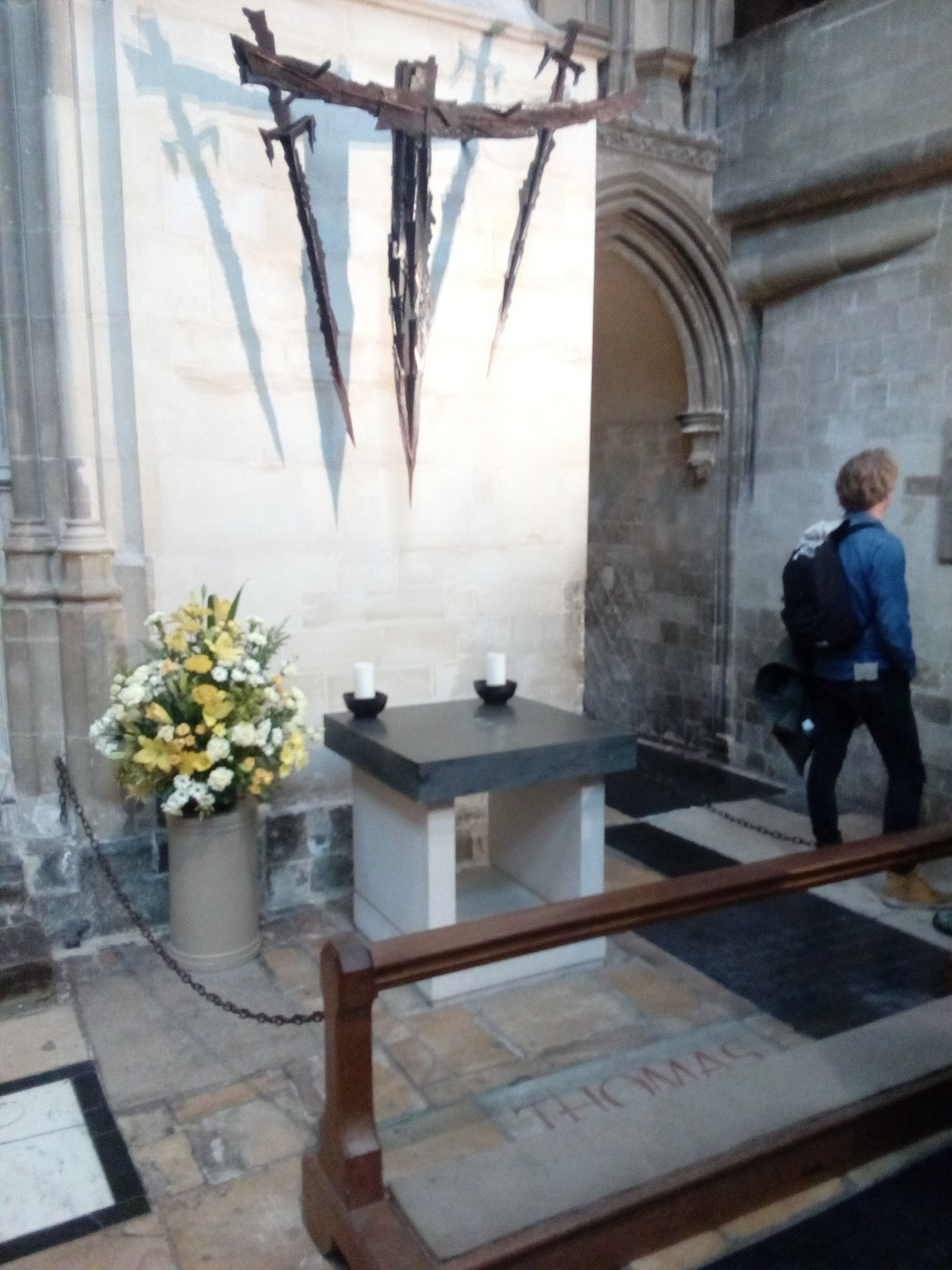 sculpture in Canterbury Cathedral memorializing the martyrdom of Thomas Becket